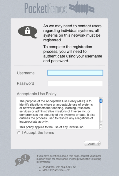 PacketFence User Registration Message